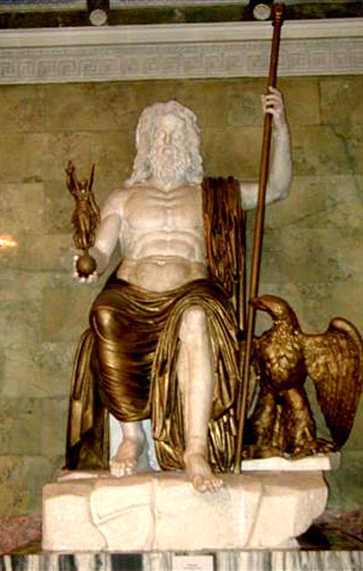 Άγαλμα του Ολυμπίου Διός ( Ερμιτάζ)